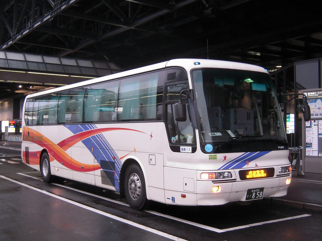 Miyagi kotsu Highwaybus "Polarstar"(Sendai- Chiba,Narita International Airport)